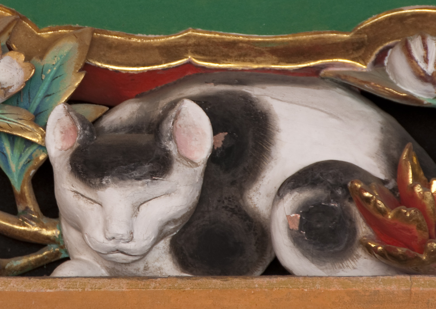 Sleeping cat, carving attributed to Hidari Jingoro, Toshogu, Nikko, Tochigi Prefecture, Japan, a UNESCO World Heritage Site.